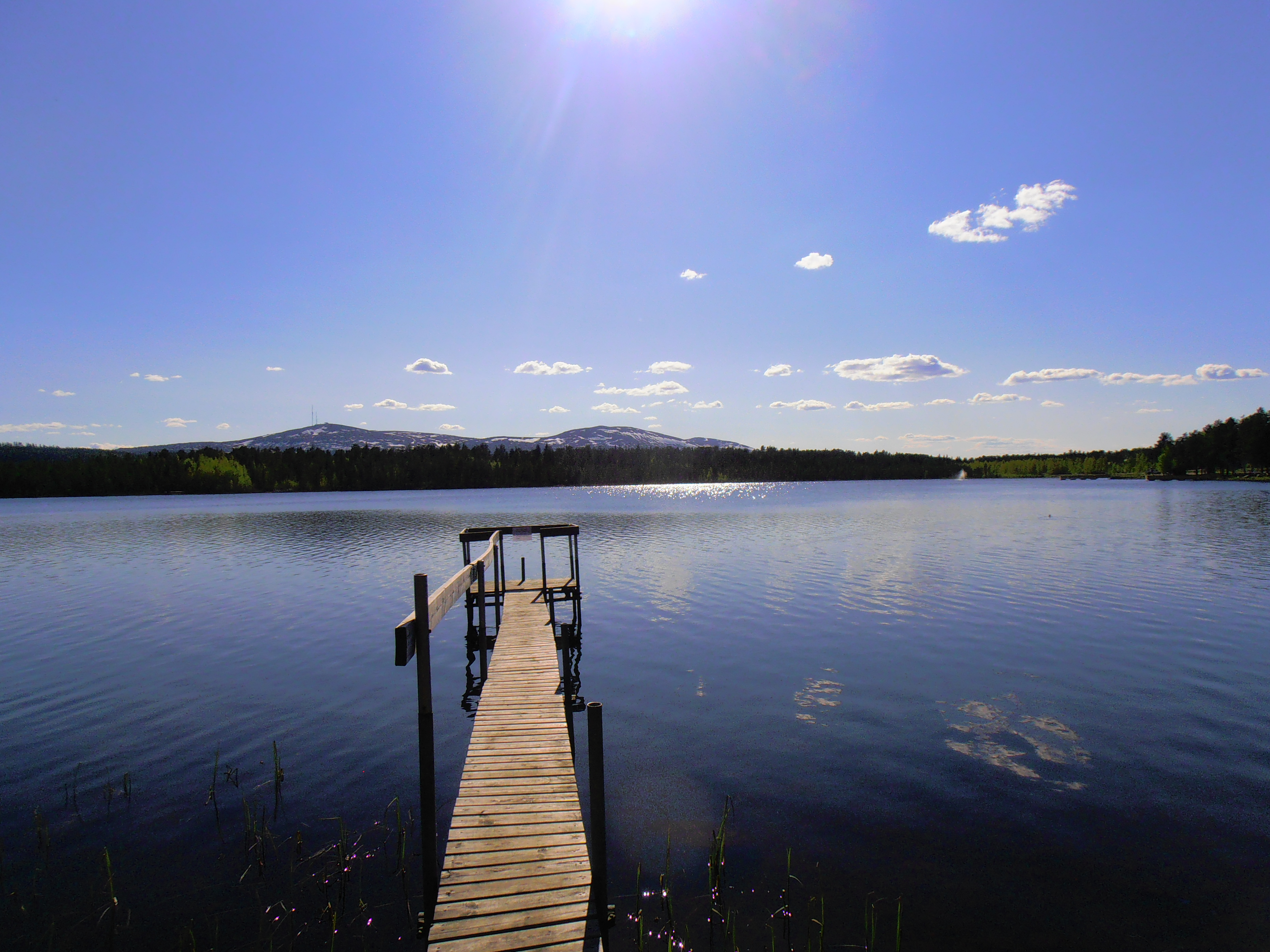 Nuolajarvi lake, Gallivare